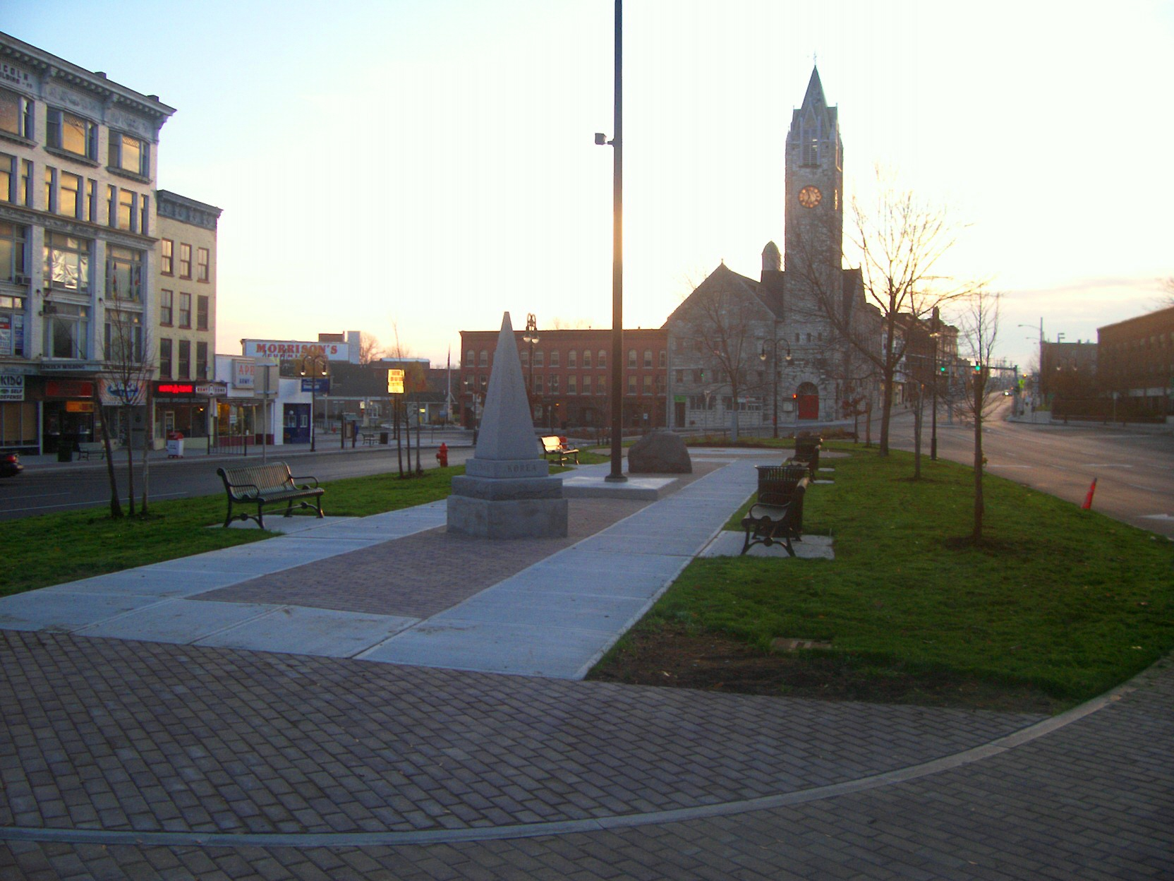 Public Square, Watertown, NY facing east.